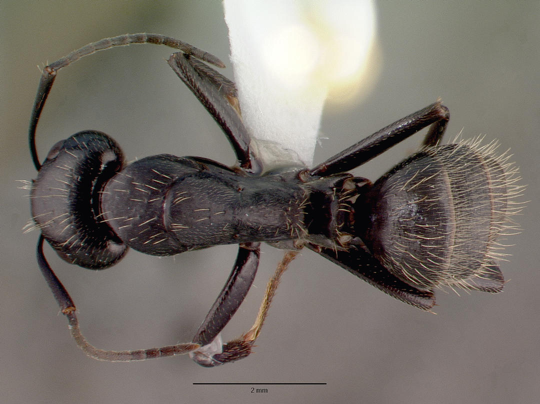 Dorsal view of ant Camponotus vagus specimen casent0008640.